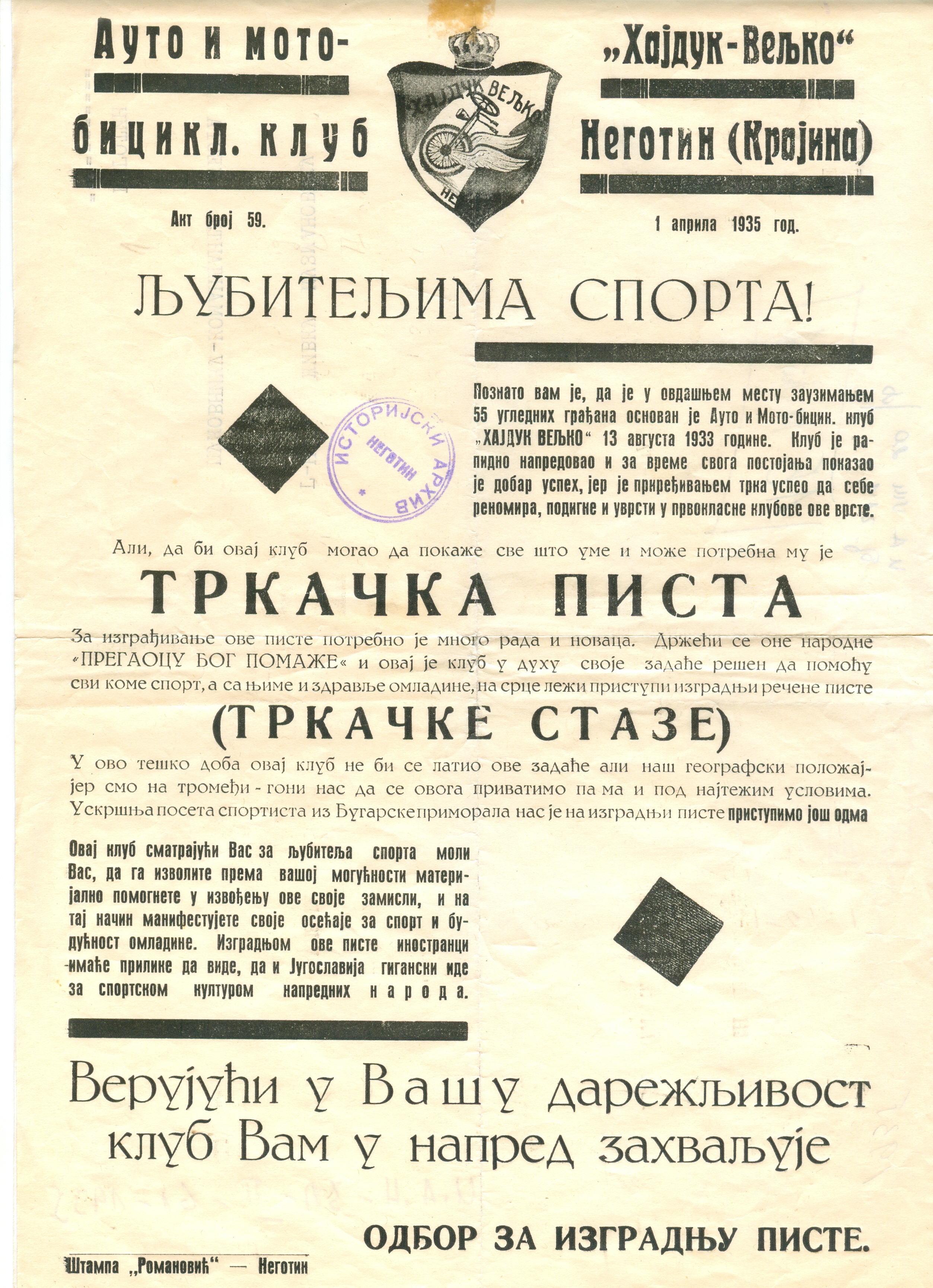 Auto and Motorcycle Club "Hajduk Veljko", Poster from 1935. Srpski (latinica): Auto i motobiciklistički klub "Hajduk Veljko", Plakat iz 1935.